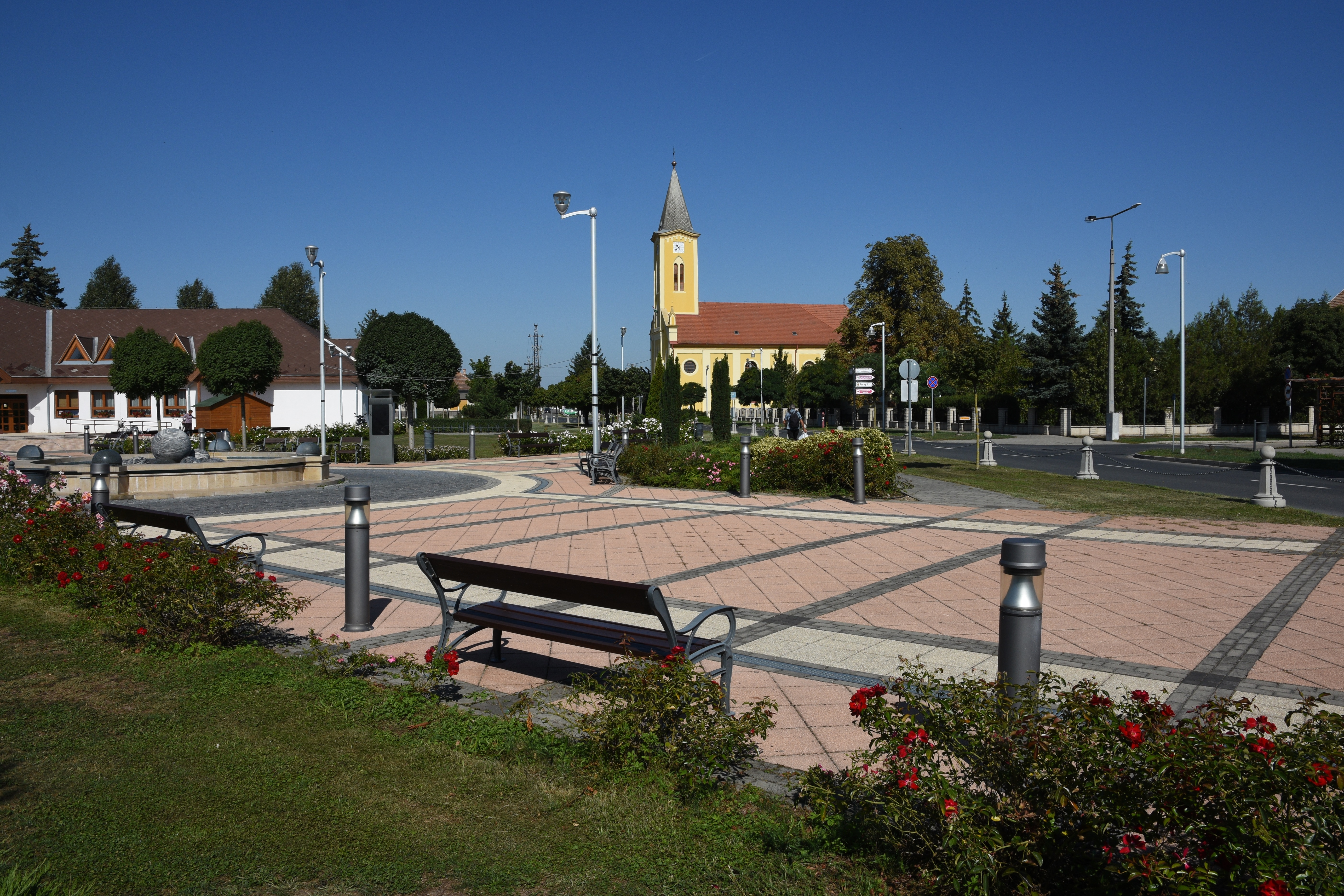 Répcelak